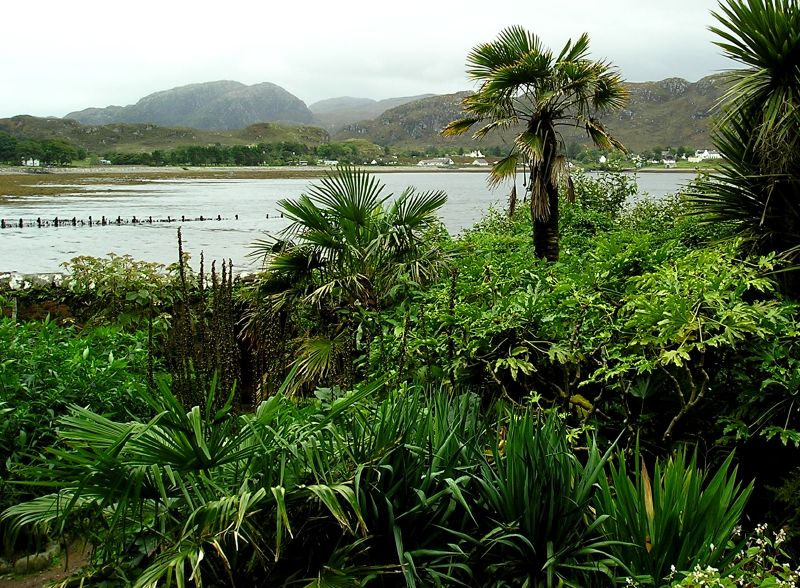 the gulf stream means palm trees on the west coast of scotland - latitude north of Moscow